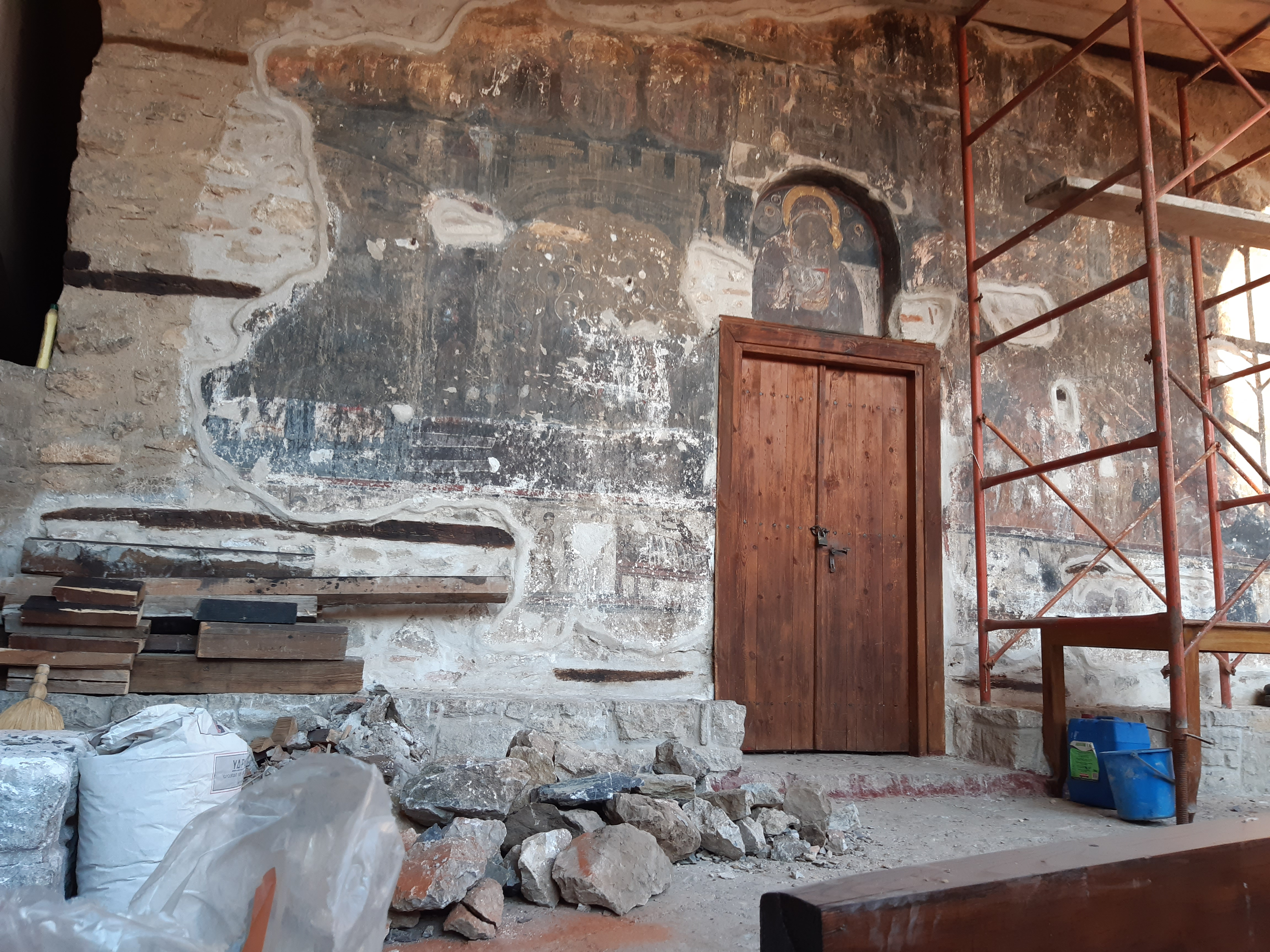 Saint Mary of Apostolakis Church